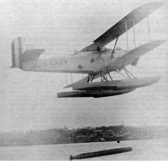 Aircraft-dropped Mark 7 torpedo, published in "A Brief History of U.S. Navy Torpedo Development", E.W. Jolie, 15 September 1978